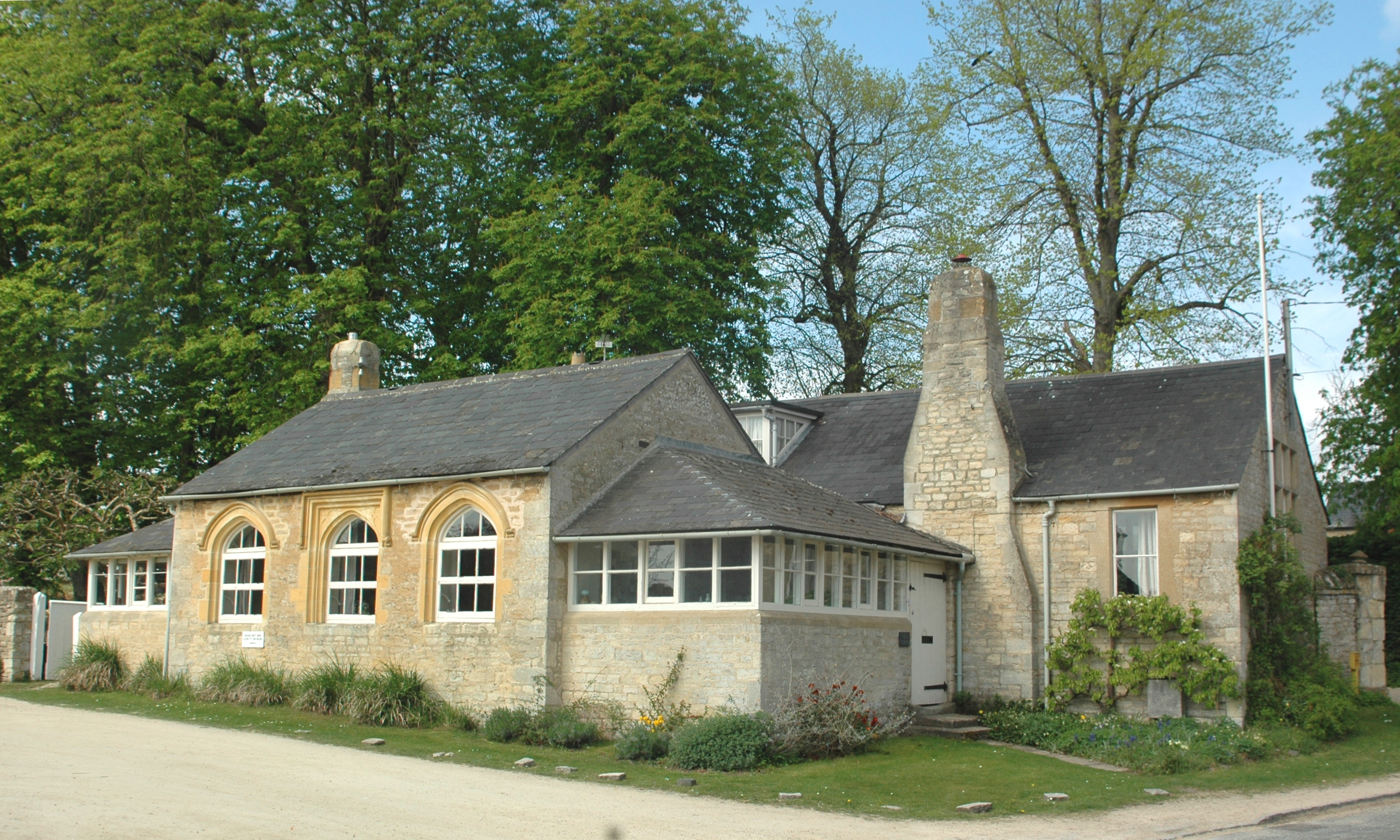 Former National School at Church Hanborough, Oxfordshire; built 1832, extended 1872; now a private home.